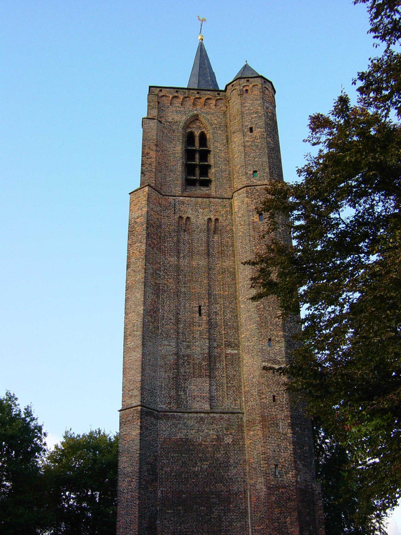 Photography of the Old Tower (Oude Toren) in Beek en Donk, Noord-Brabant, Netherlands, 2005